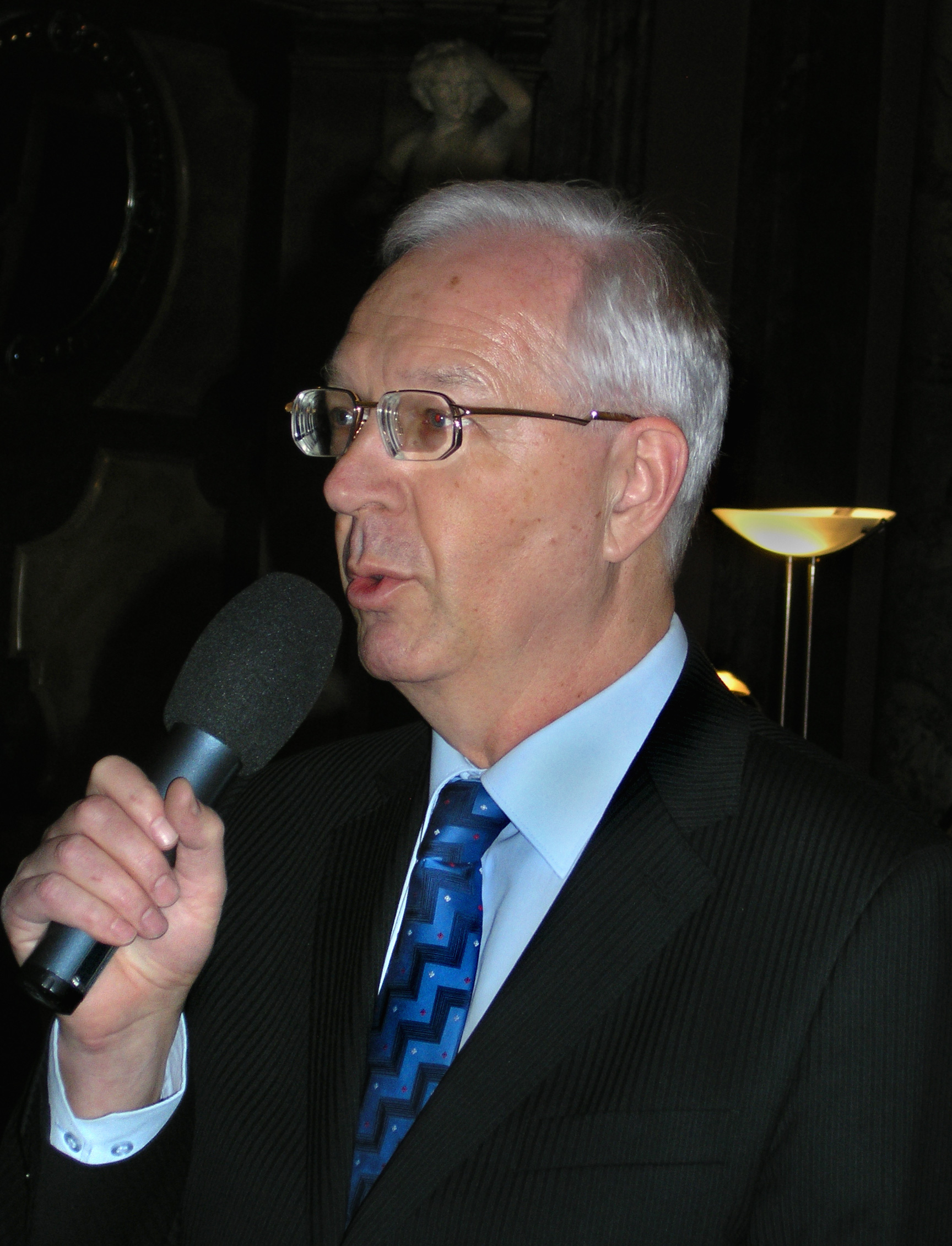 Jiří Drahoš, President of the Czech Academy of Sciences